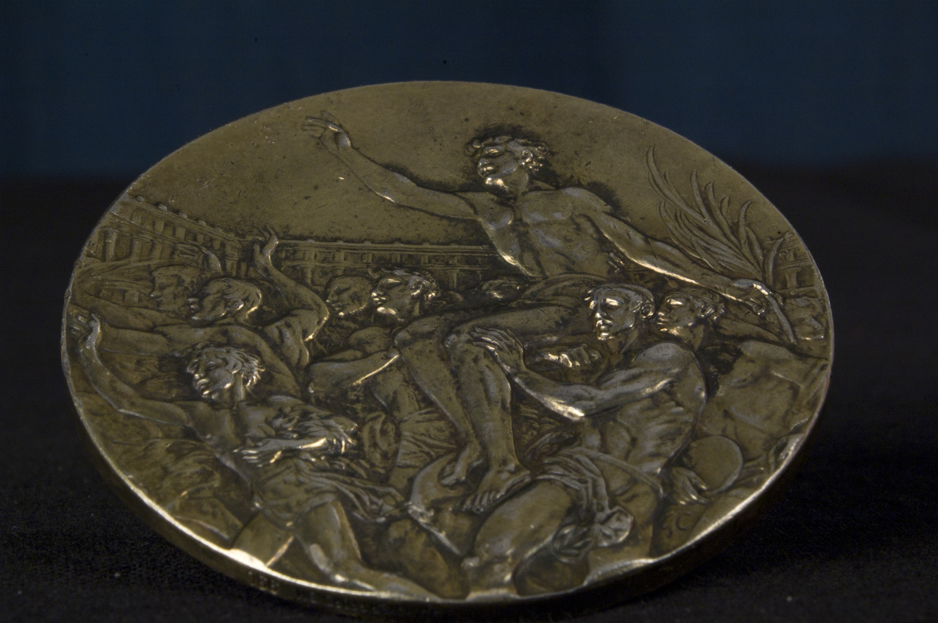 John Woodruff's gold Medal from the XI Olympic Games, Berlin, Germany, 1936.